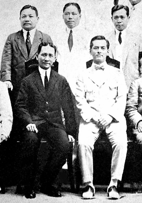 Senator Francisco T. Liongson (far left) with Speaker Sergio Osmeña, Senate President Manuel Quezon and Claro Recto